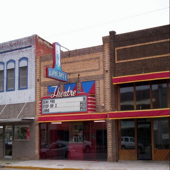 Carnegie, Oklahoma. The Carnegie Liberty Theatre is located 9 W Main, Carnegie, OK 73015. The theatre offers standard movies for $4 and 3D movies for $6. The locals enjoy the "show dogs" and "show cokes" (hot dogs and soda) at the concession stand. Surrounding towns and local residents agree that The Liberty Theatre is a great place to see a movie.